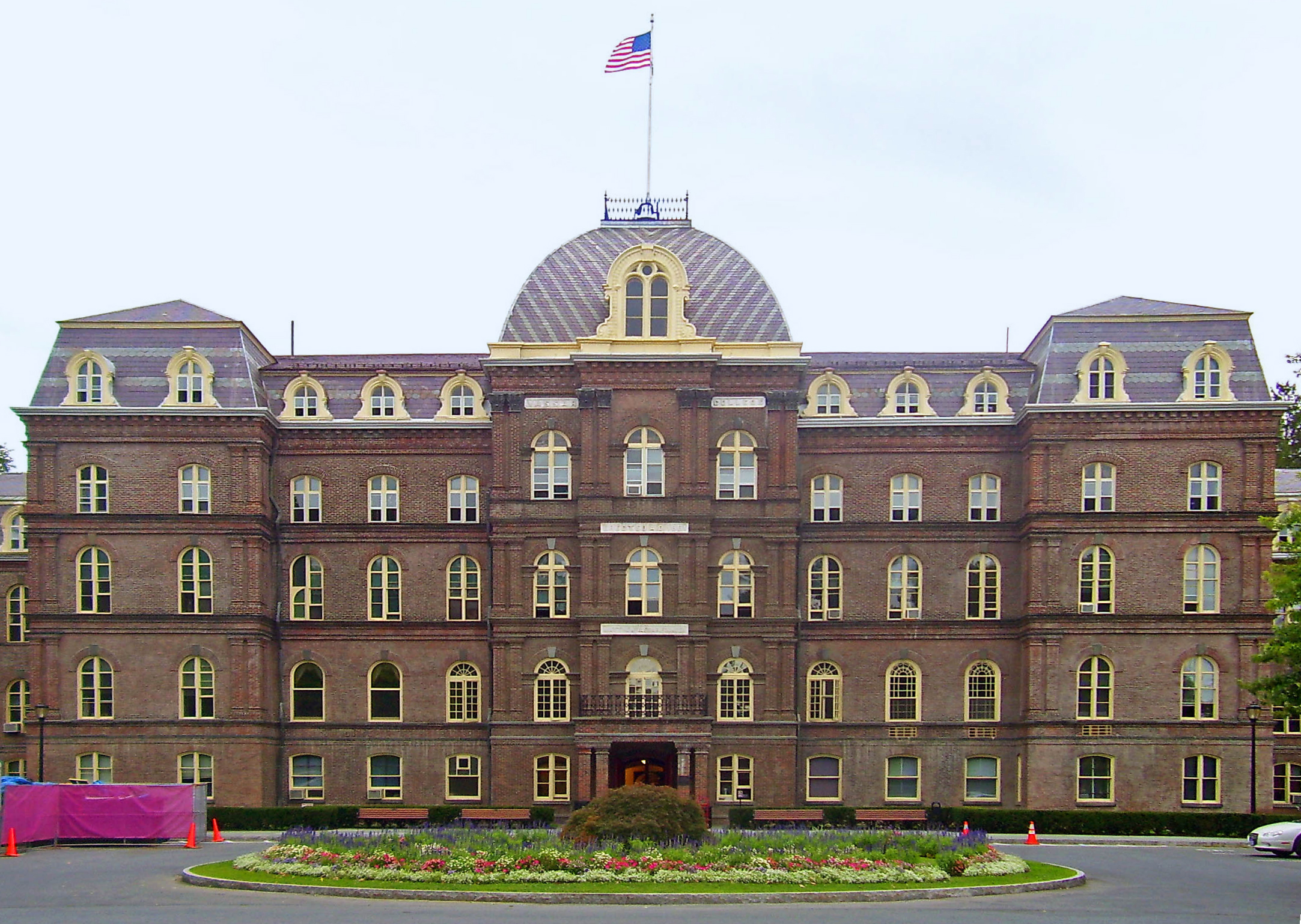 Old Main at Vassar College in in Poughkeepsie, NY, USA, a National Historic Landmark